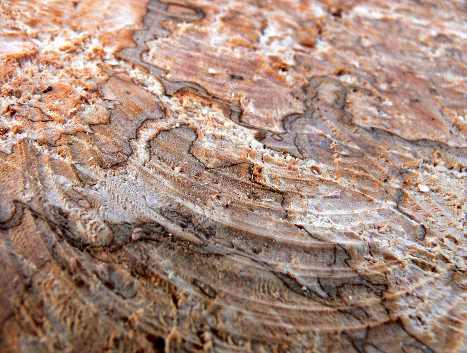 dead wood of aesculus (cut).. supposed to be killed by a bacteria (pseudomonas syringae), detail. In Lille, north of France (Grand parking de l'Esplanade / Champs de Mars)